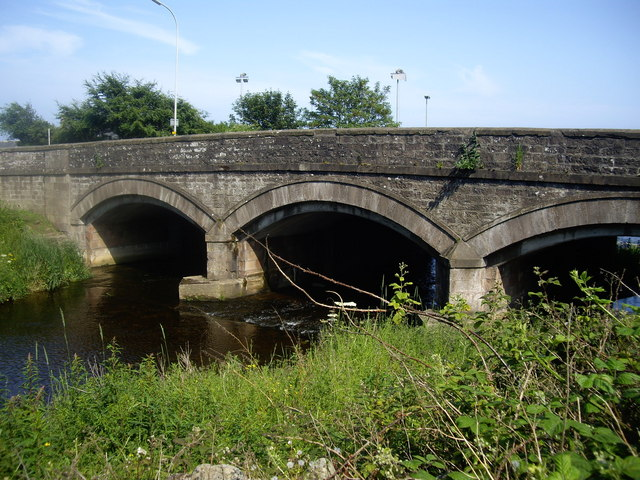 Cowie Bridge from the west